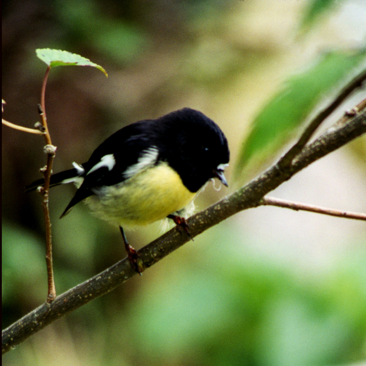 Tomtit (Petroica macrocephala). "These small birds followed us through the forests, and seemed fearless. They'd get too close to photograph, and climb onto my pack whenever I set it down. "